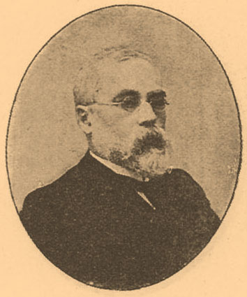 Illustration from Brockhaus and Efron Encyclopedic Dictionary (1890—1907)